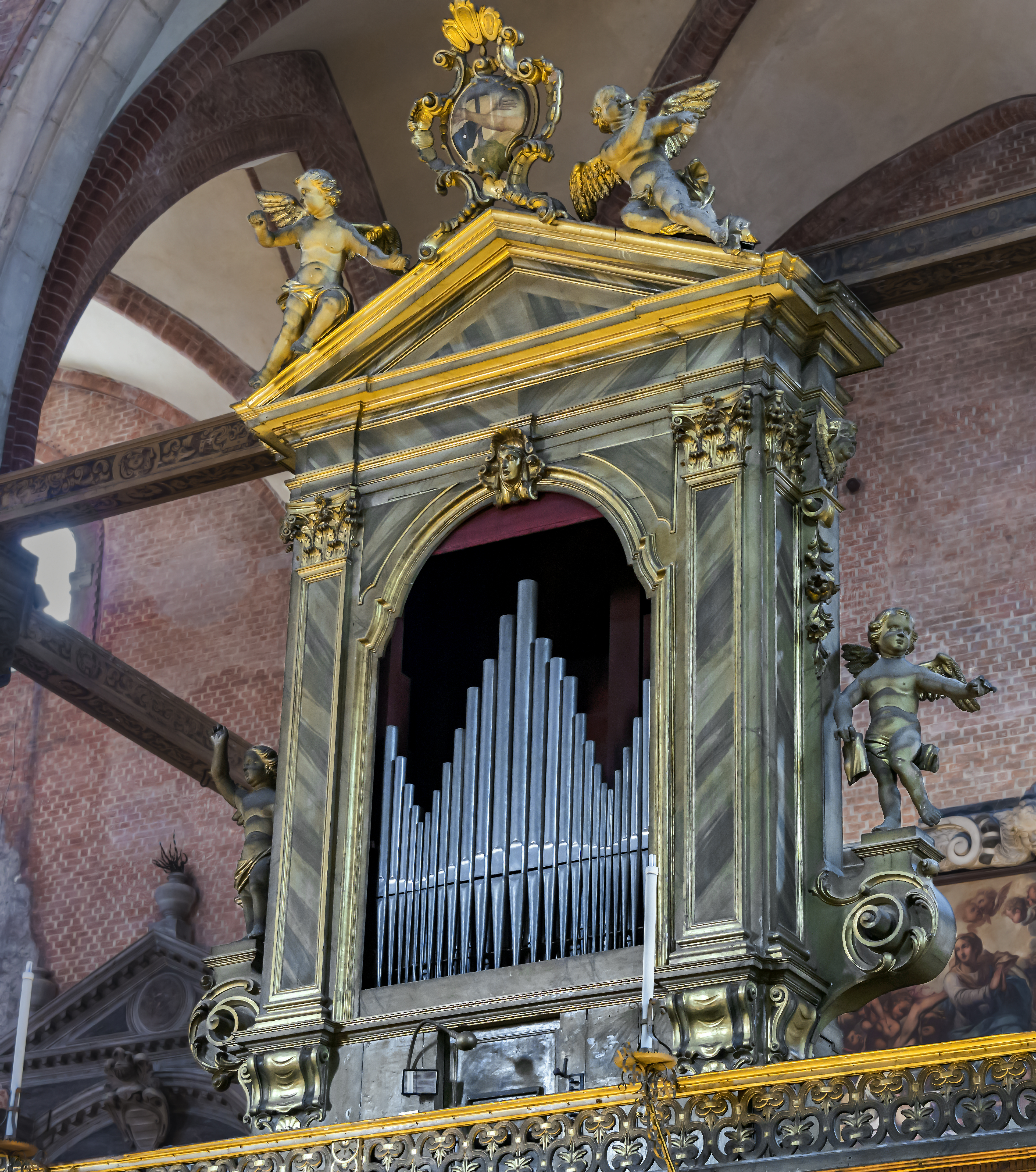 The Basilica di Santa Maria Gloriosa dei Frari. Left organ by Giovanni Battista Piaggia (1732).